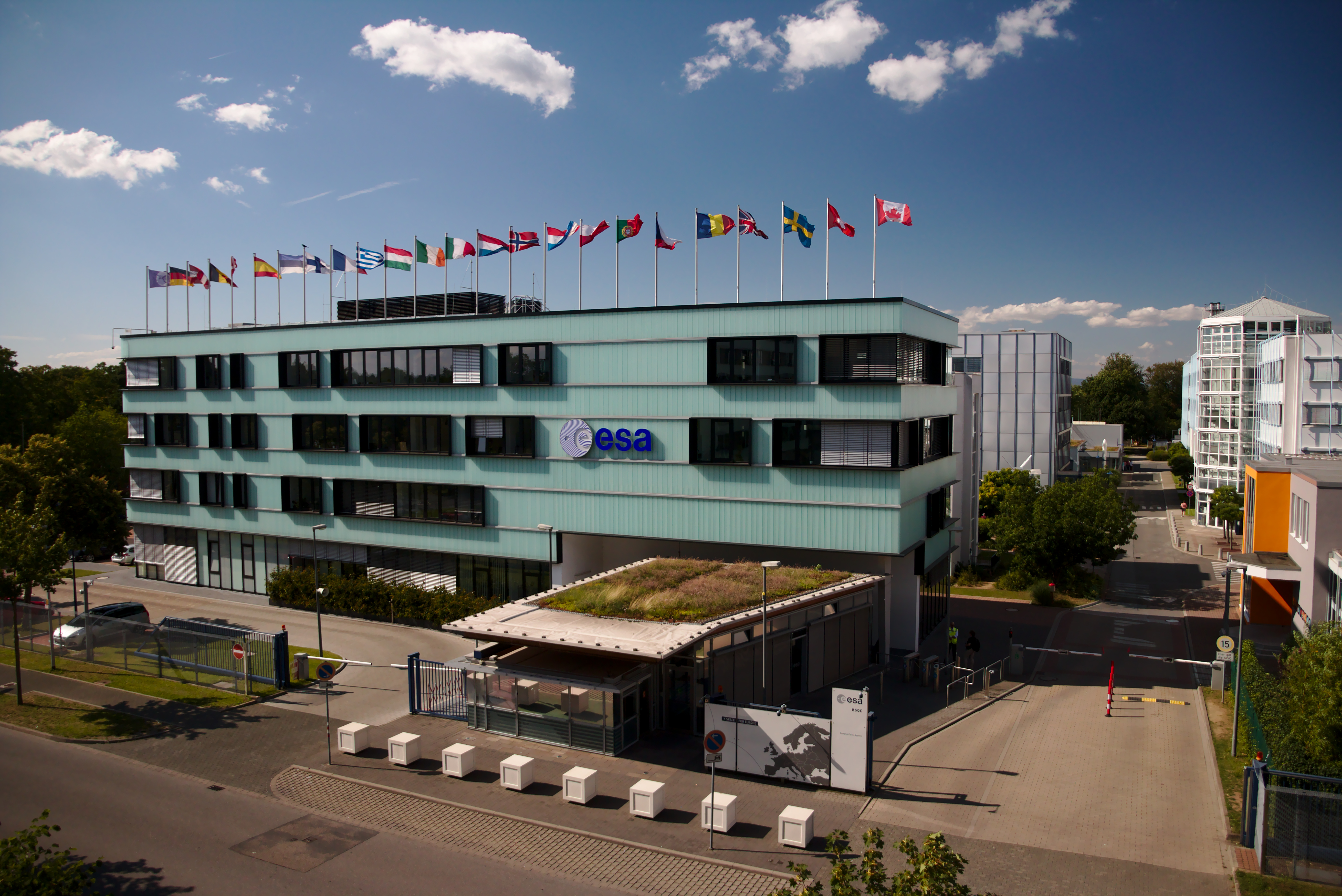 Main Gate of ESOC at Robert-Bosch-Straße in Darmstadt with the new building and the ESA member state flags.